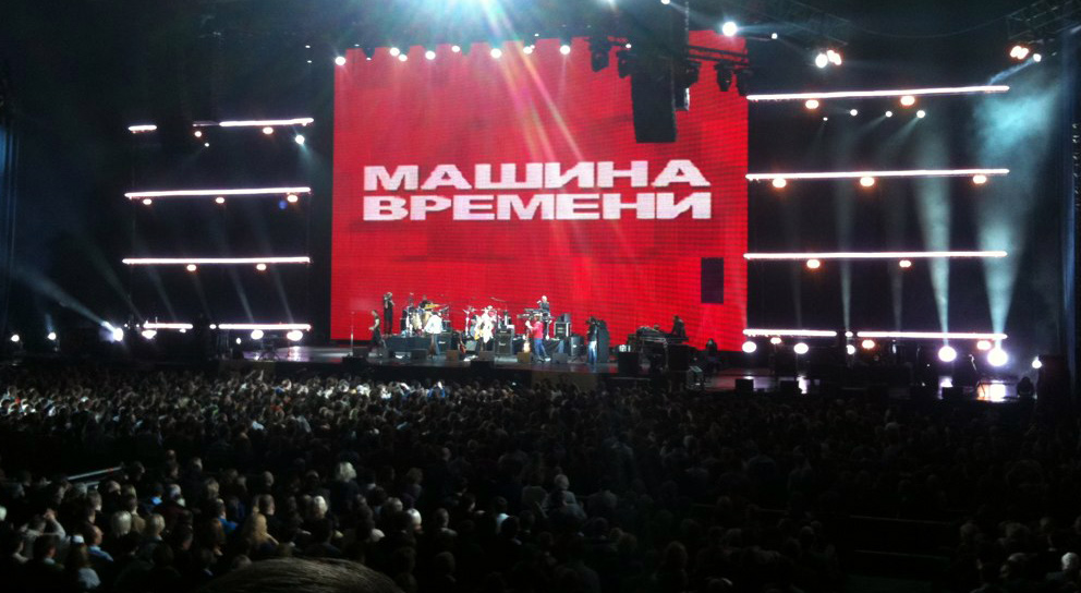 Mashina Vremeni 40 years jubilee concert